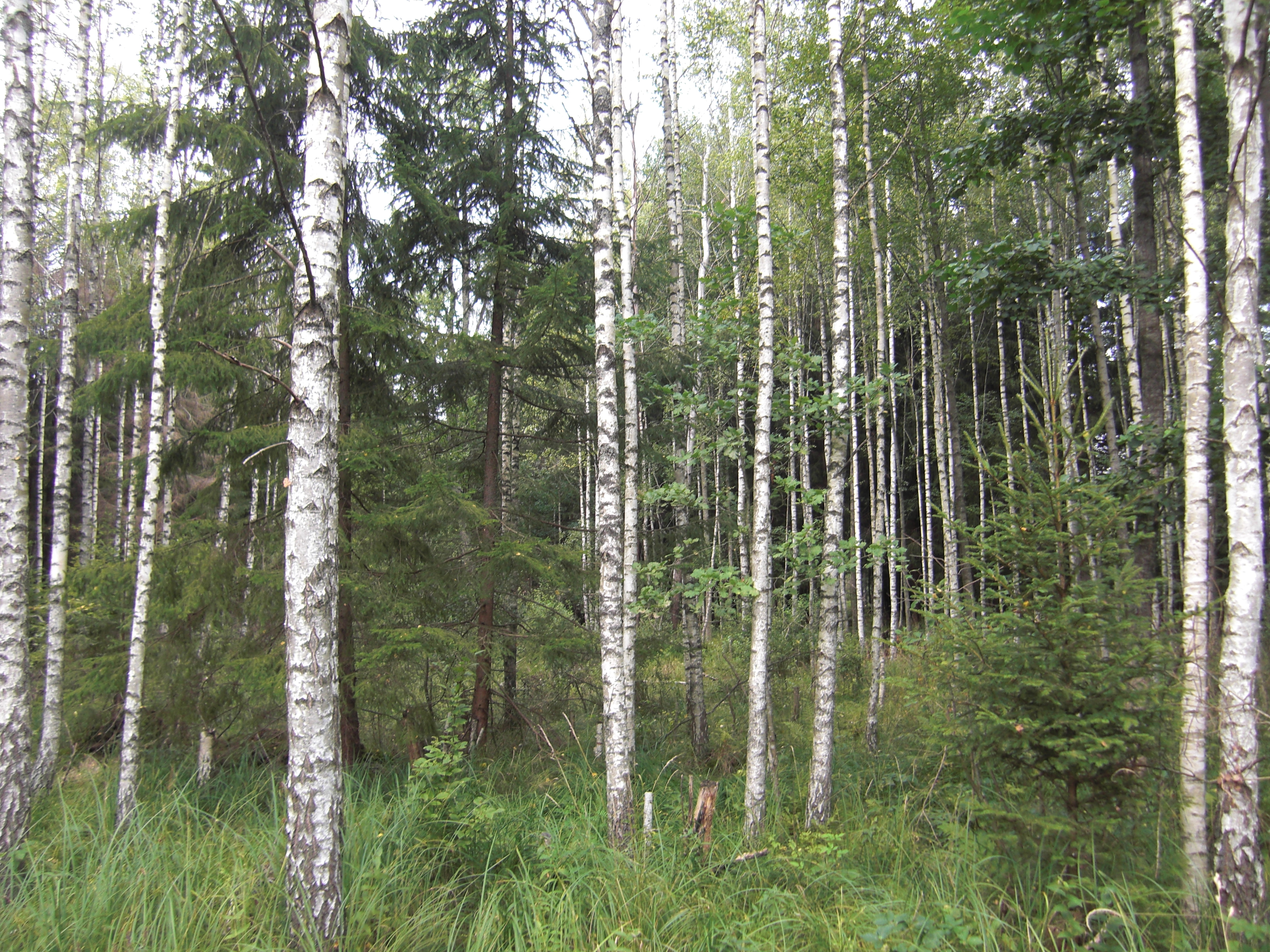 las brzozowy w kwartale 187 p. Białowieskiej